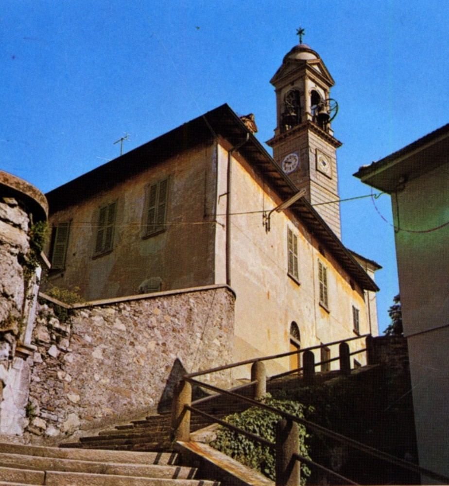 Chiesa parrocchiale. Molteno. Italia.